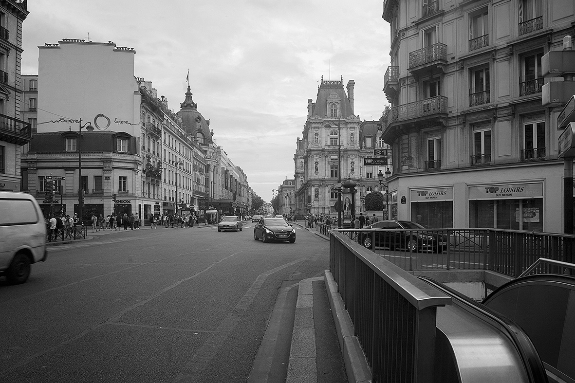 Rue de Rivoli (Paris), near Boulevard Sebastopol